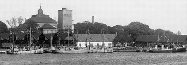 Danske Flotille (Danish Flotille) in Swedish Naval base of Karlskrona (remaining ships of the Danish Navy which escaped to Sweden from German occupation and scuttling 1943)